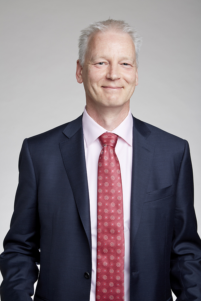 Andrew Neil James McKenzie FRS FMedSci is a molecular biologist and group leader in the Medical Research Council (MRC) Laboratory of Molecular Biology (LMB) at the University of Cambridge. Attribution: The Royal Society